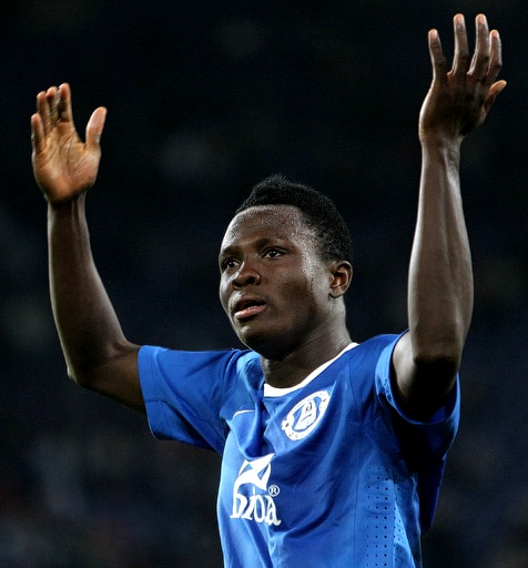 Samuel Inkoom is a Ghanaian football player